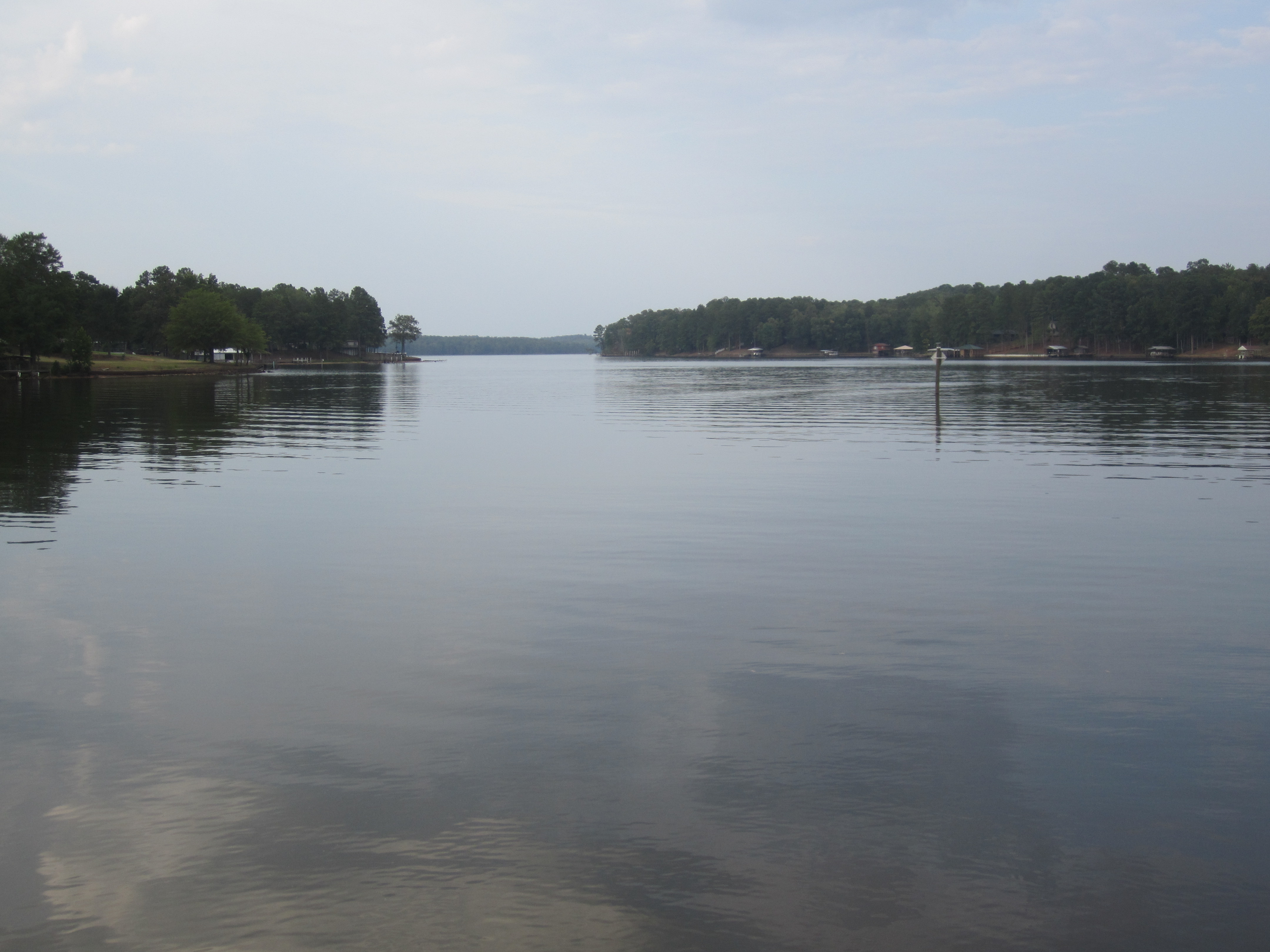 I took photo with Canon camera on Lake Claiborne east of Homer, LA.